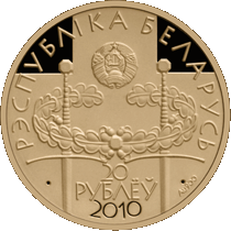 "The Battle of Grunwald. The 600th Anniversary" Gold commemorative coins, denomination: 20 rubles, Belarus